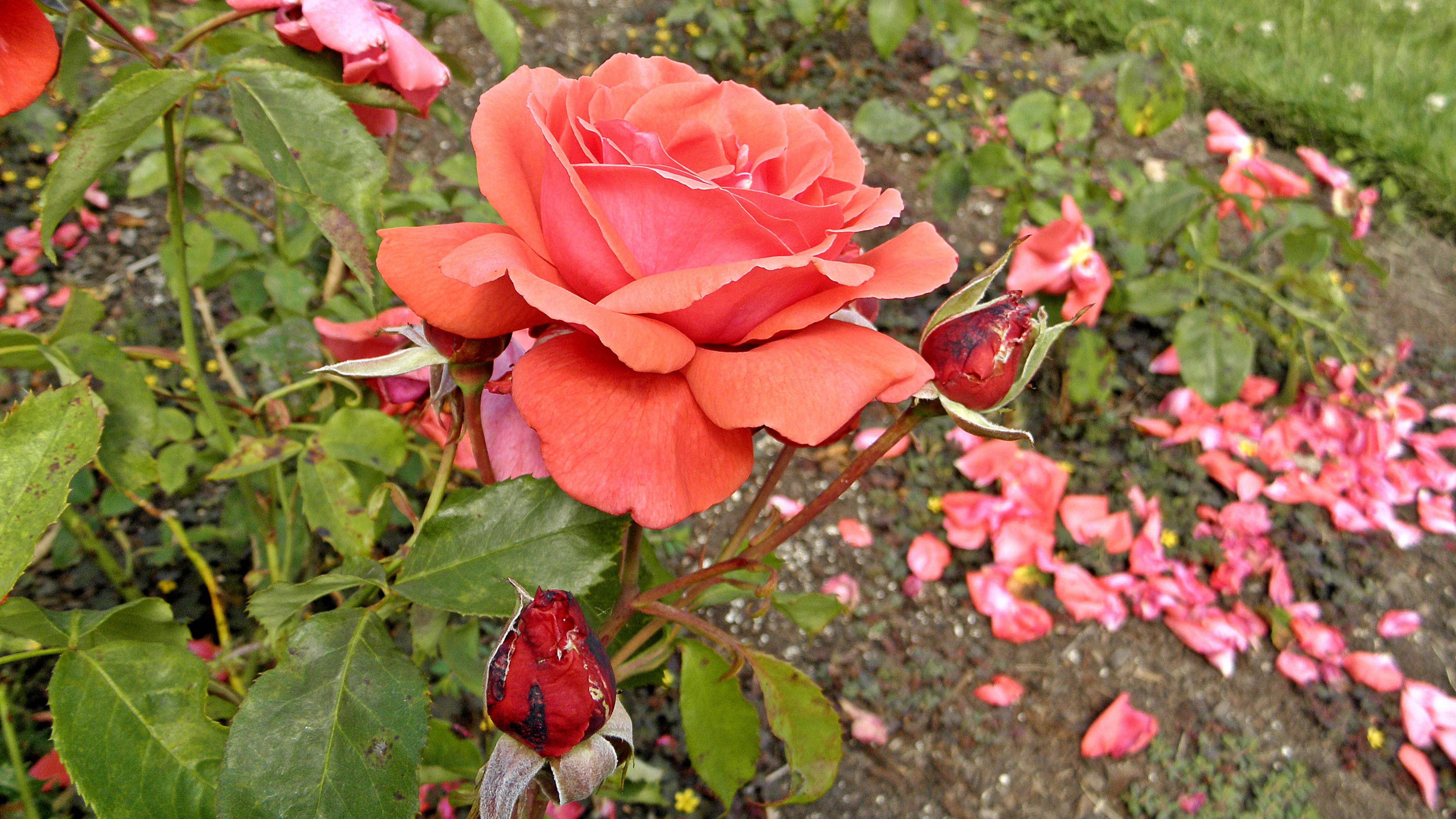 Hybrid Tea Rose 'Fragrant Cloud'; Bush Pasture Park Rose Garden, Salem, Or. 97301